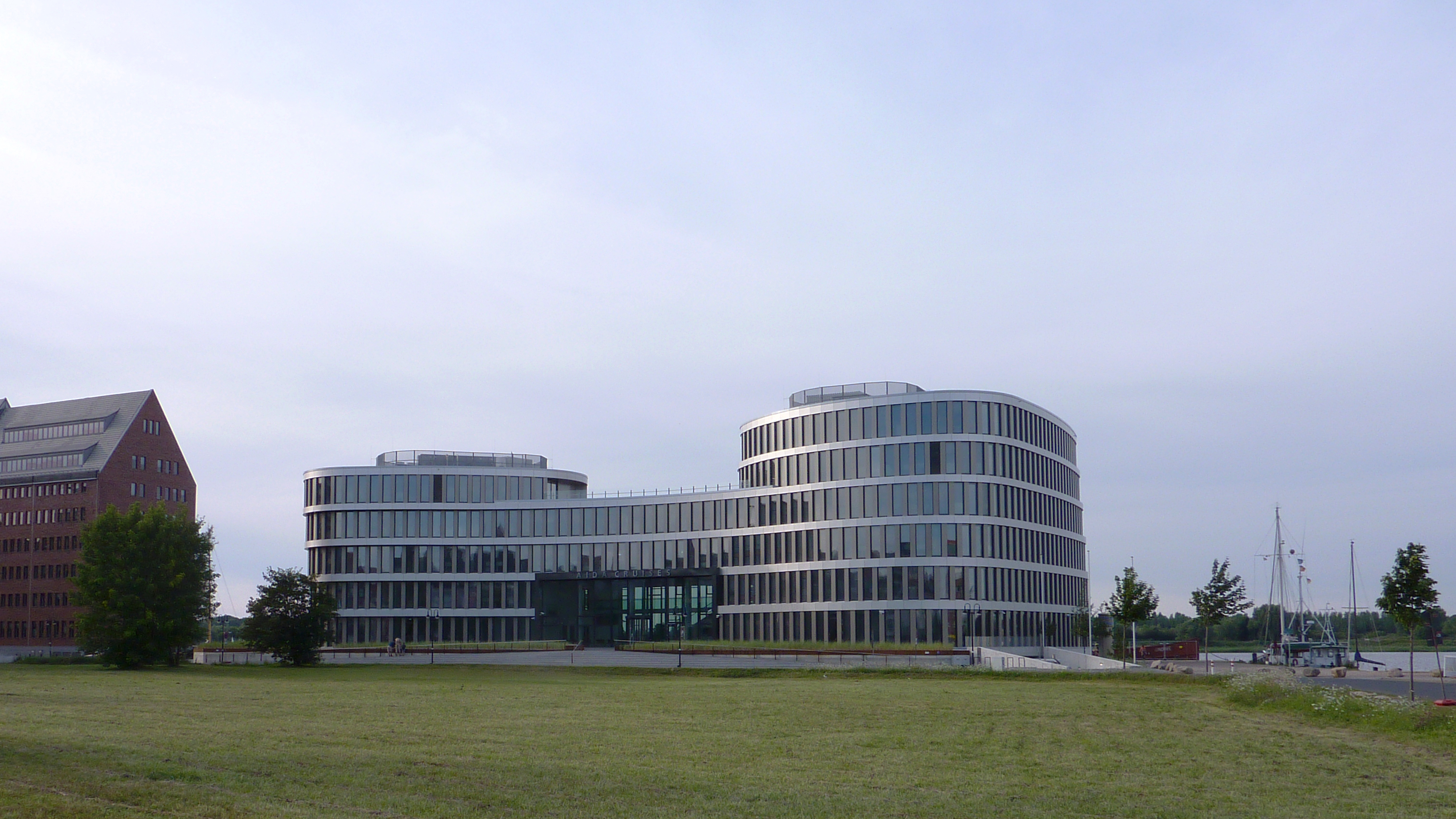 Headquarters of cruiseline company AIDA in Rostock: the buolding is shaped like aship and equipped with high tech environmental technology.